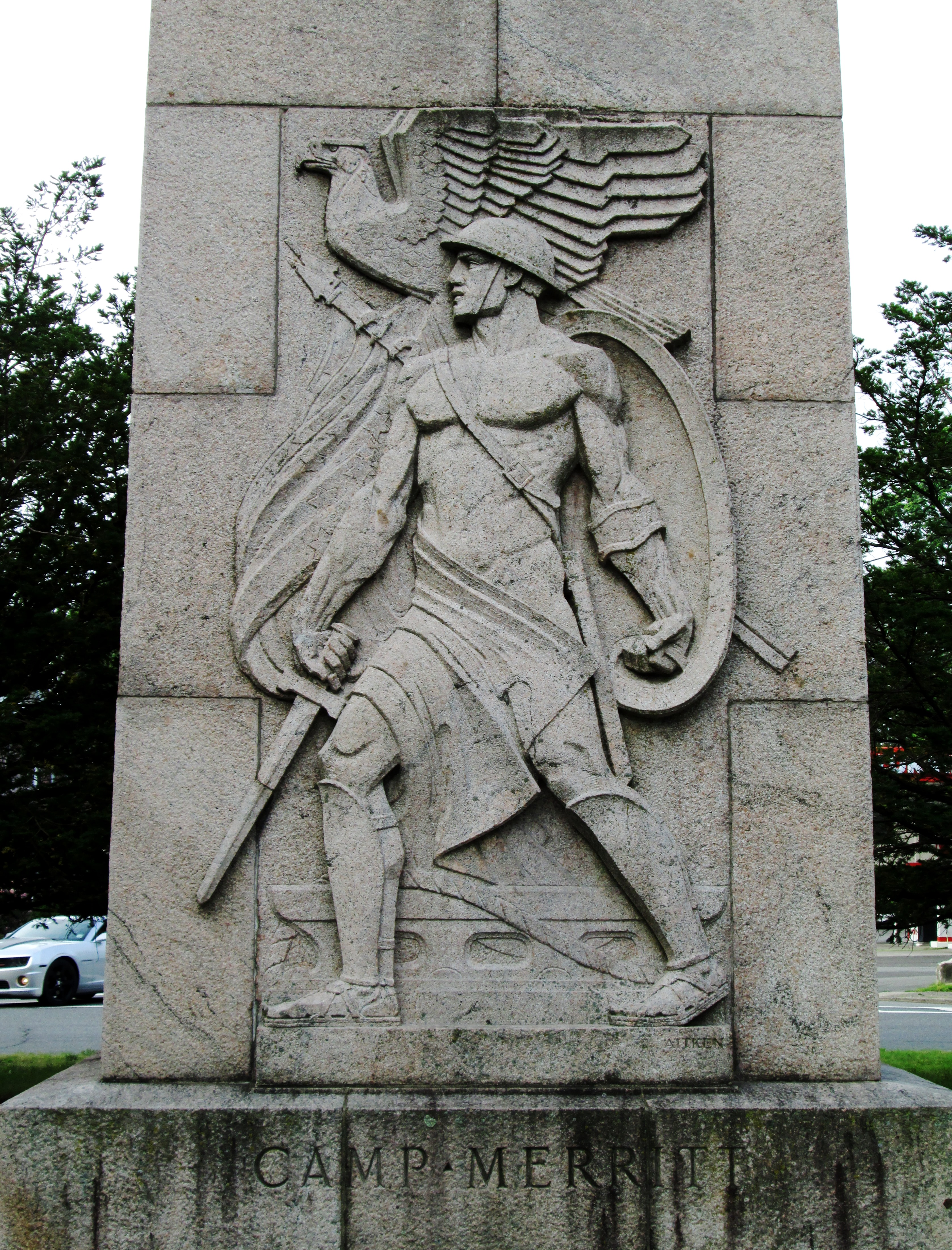 The Camp Merritt Memorial Monument is dedicated to the soldiers who passed through Camp Merritt, New Jersey on their way to fight in Europe in World War I, especially the 578 people – 15 officers, 558 enlisted men, four nurses and one civilian – who died at the camp due to the worldwide influenza epidemic of 1918, whose names are inscribed at the base of the monument.The memorial is located at the borders of Cresskill and Dumont in Bergen County, New Jersey at the intersection of Madison Avenue and Knickerbocker Road (CR 505). Camp Merritt was a major embarkation camp which processed more than a million soldiers, and the monument marks its center. The monument, a replica of the Washington Monument, is a 66-foot (20 m) tall obelisk, constructed of Stony Creek granite. It features a large carved relief sculpted by Robert Ingersoll Aitken, which portrays a World War I doughboy with an eagle above it.Near the monument on a large boulder is a copper plaque designed by Katherine Lamb Tait which has a relief of the Palisades, and in the ground is a dimensional stone carving of a map of Camp Merritt. The memorial monument was dedicated on Memorial Day, May 30, 1924. General John Pershing, Commander-in-Chief of the American Expeditionary Force, gave the dedication address to an audience of 20,000 people.